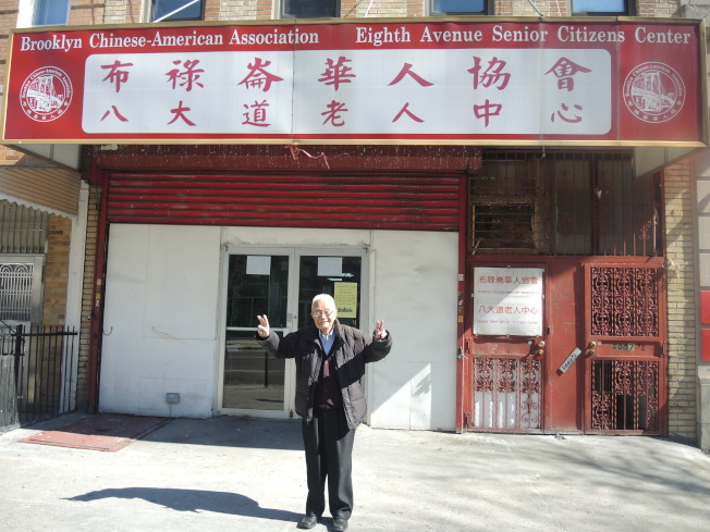 伍銳在布祿崙華人協會8大道老人中心擔任義工接近25年，是該中心最年長的耆老。